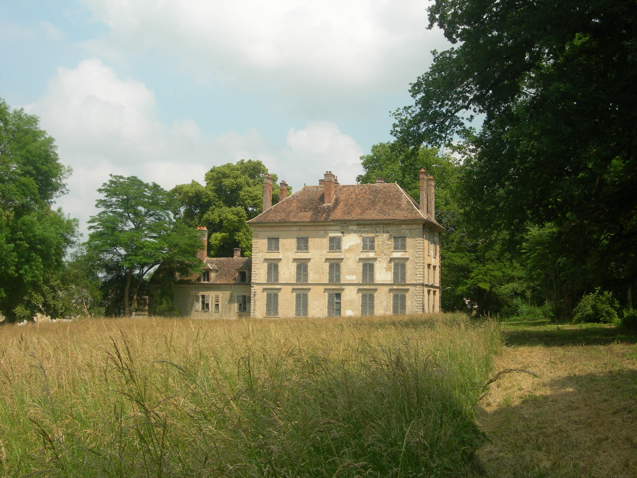 picture of the public Domaine de la Salle, Féricy (France)